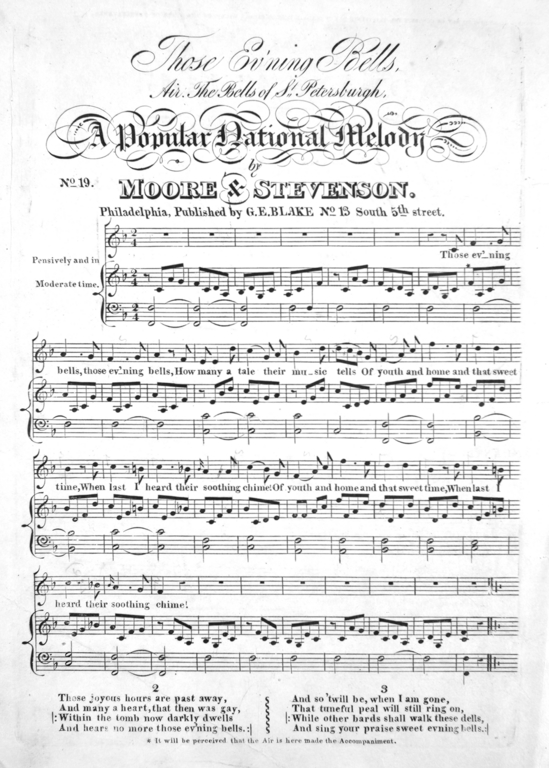 Page from «Selection of Popular National Airs» with verse "Those Evening Bells" by Thomas Moore. Music by sir John Stevenson (1761-1833)